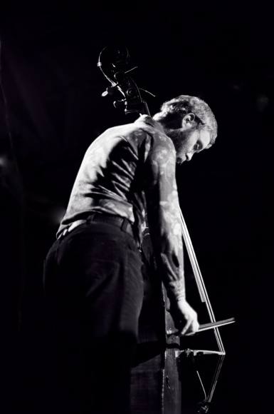 Dave Holland with Anthony Braxton Trio 1976